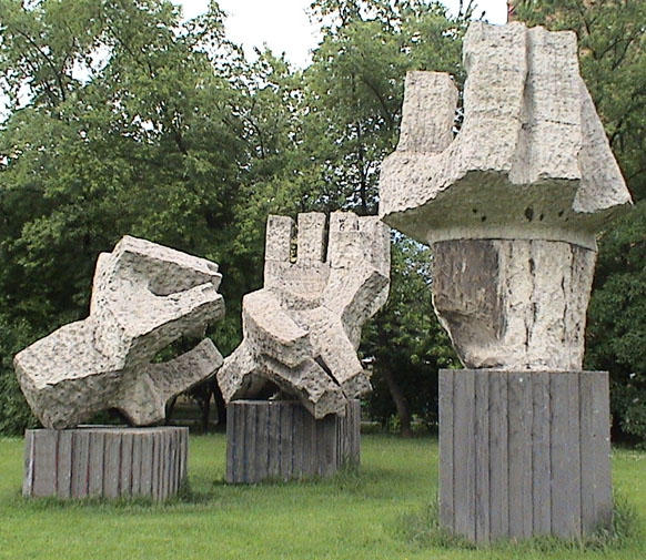 Statue – Jenő Kerényi: Hands. Miskolc, Hungary